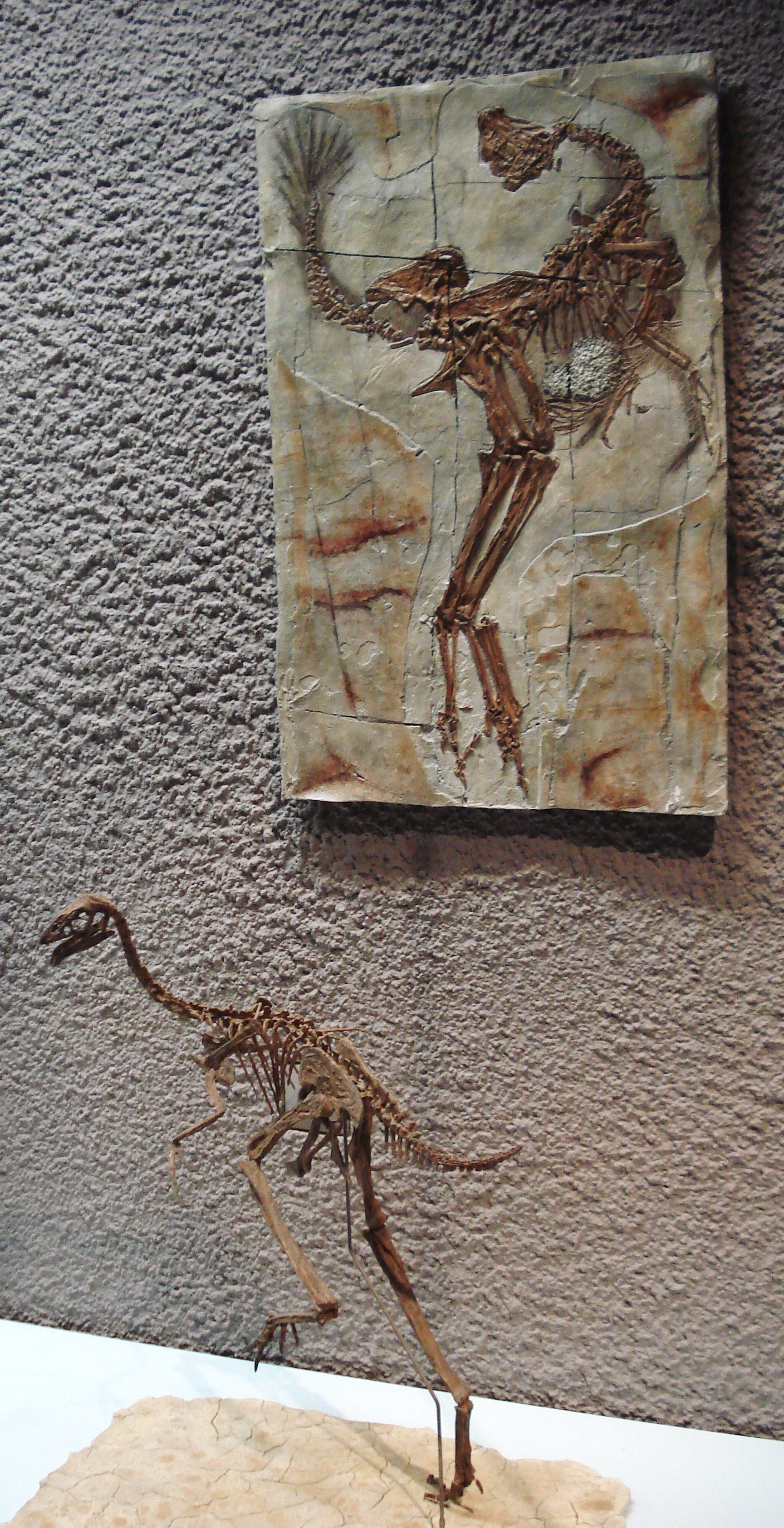 fossil of caudipteryx